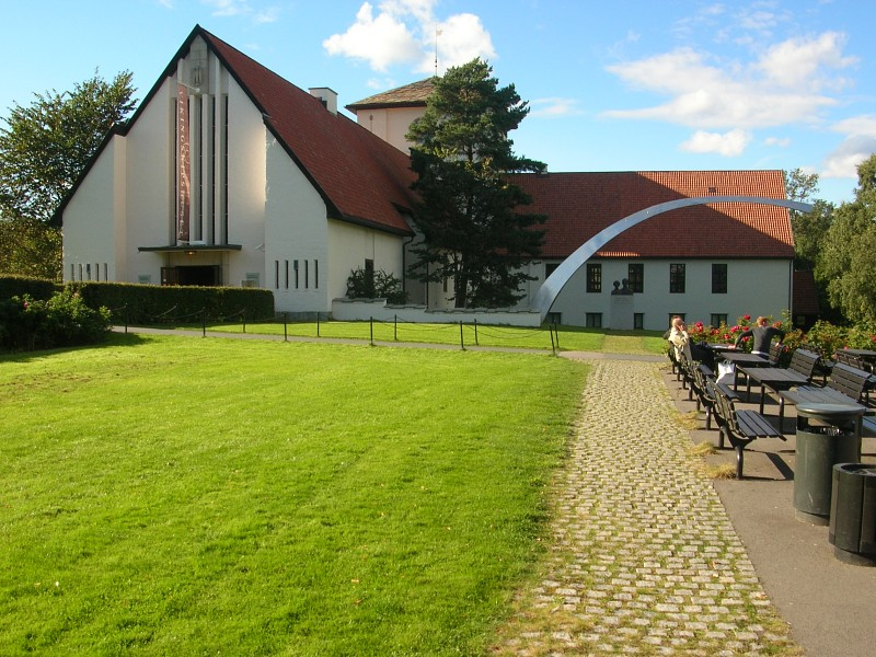 Viking Ship Museum in Oslo